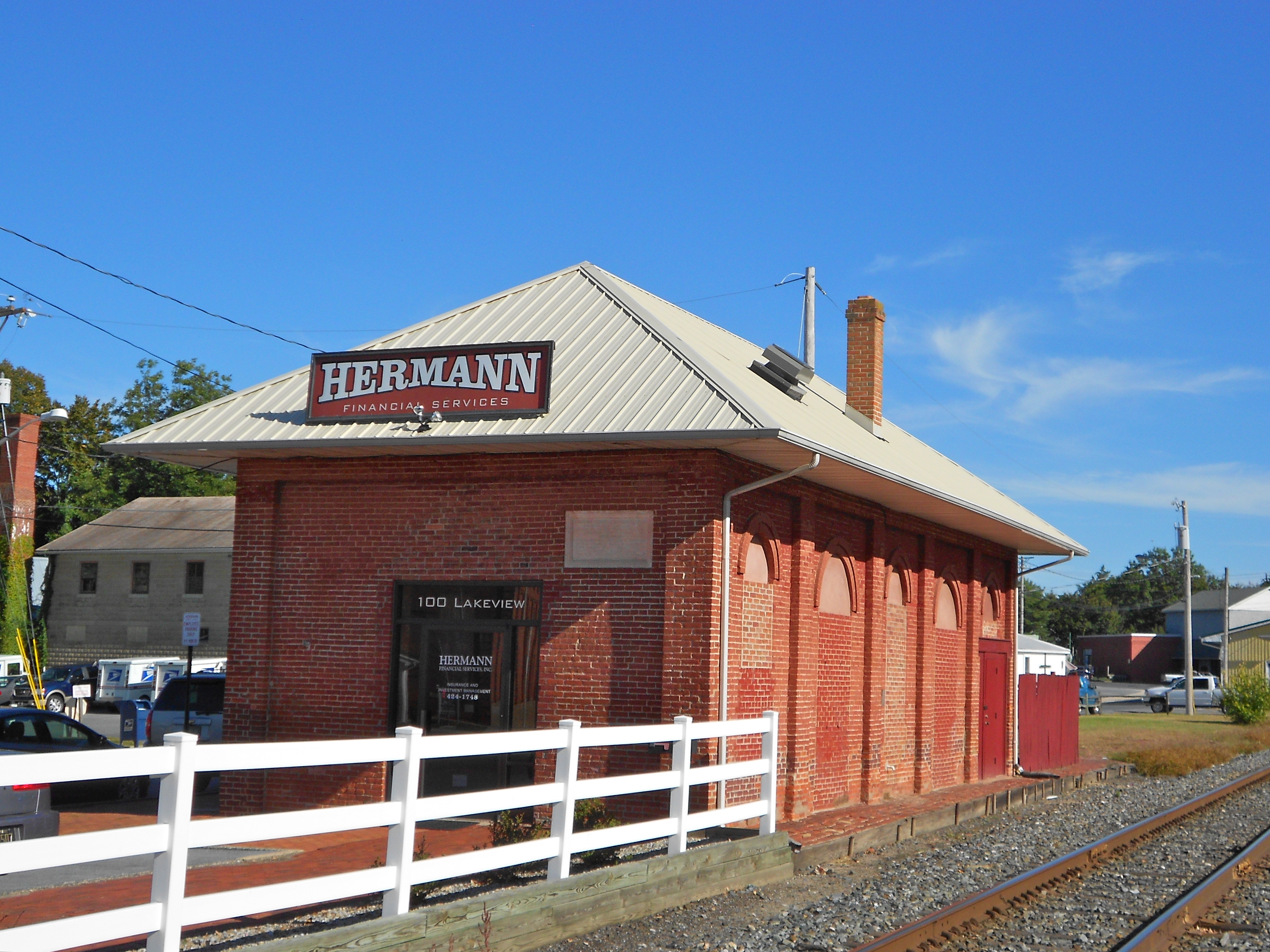 Milford Railroad Station listed on the NRHP on January 7, 1983. On Delaware Route 36, Milford, Sussex County, Delaware